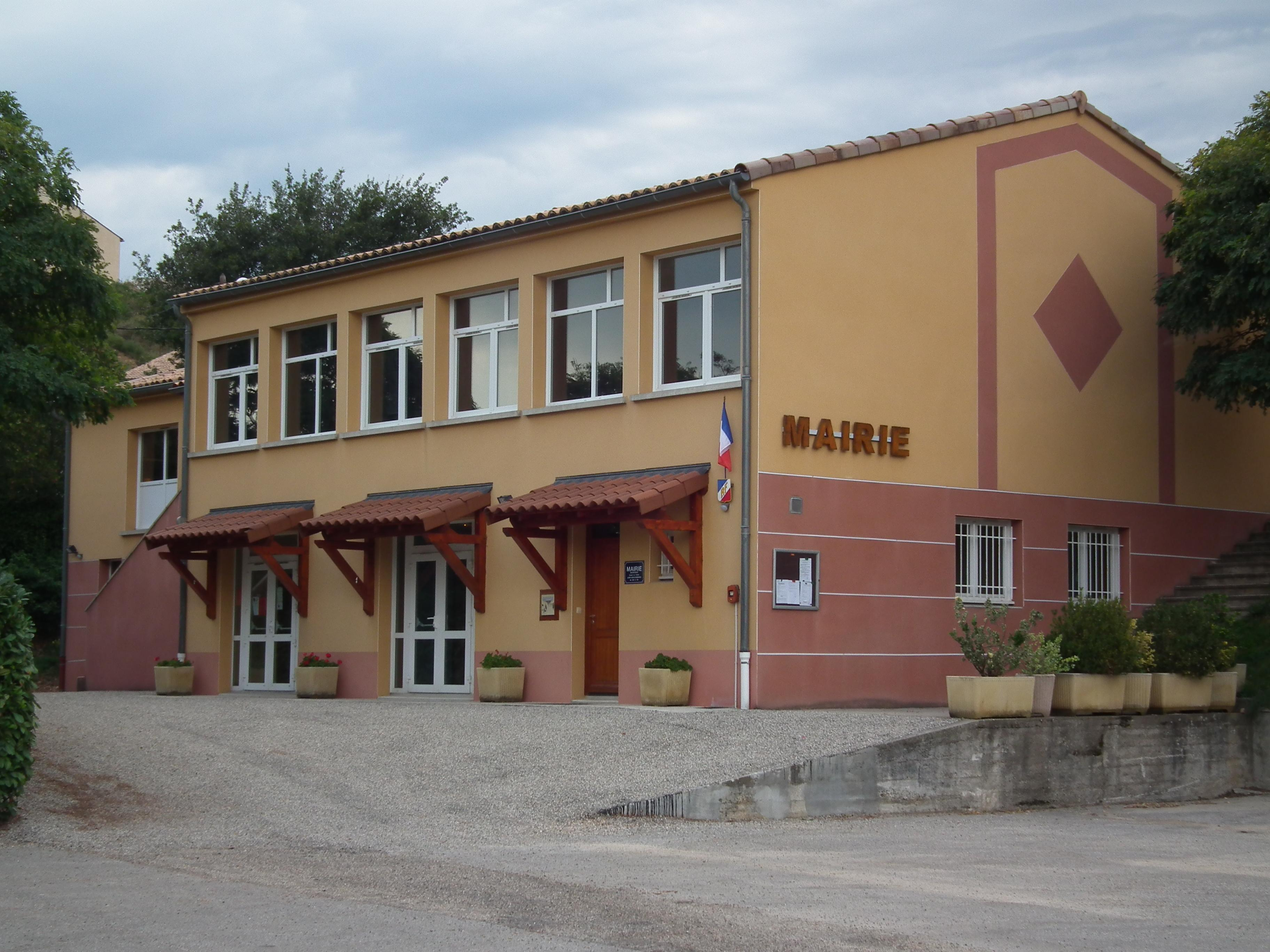 Town hall of Saint-Sylvestre - Ardèche - France